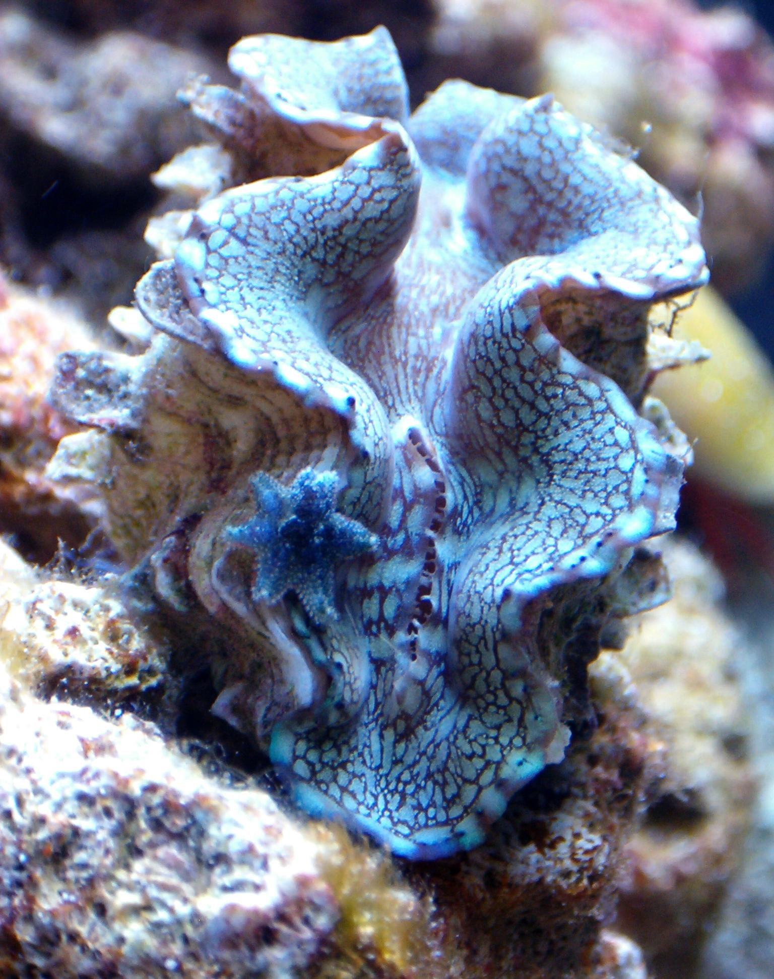 Tridacna Squamosa